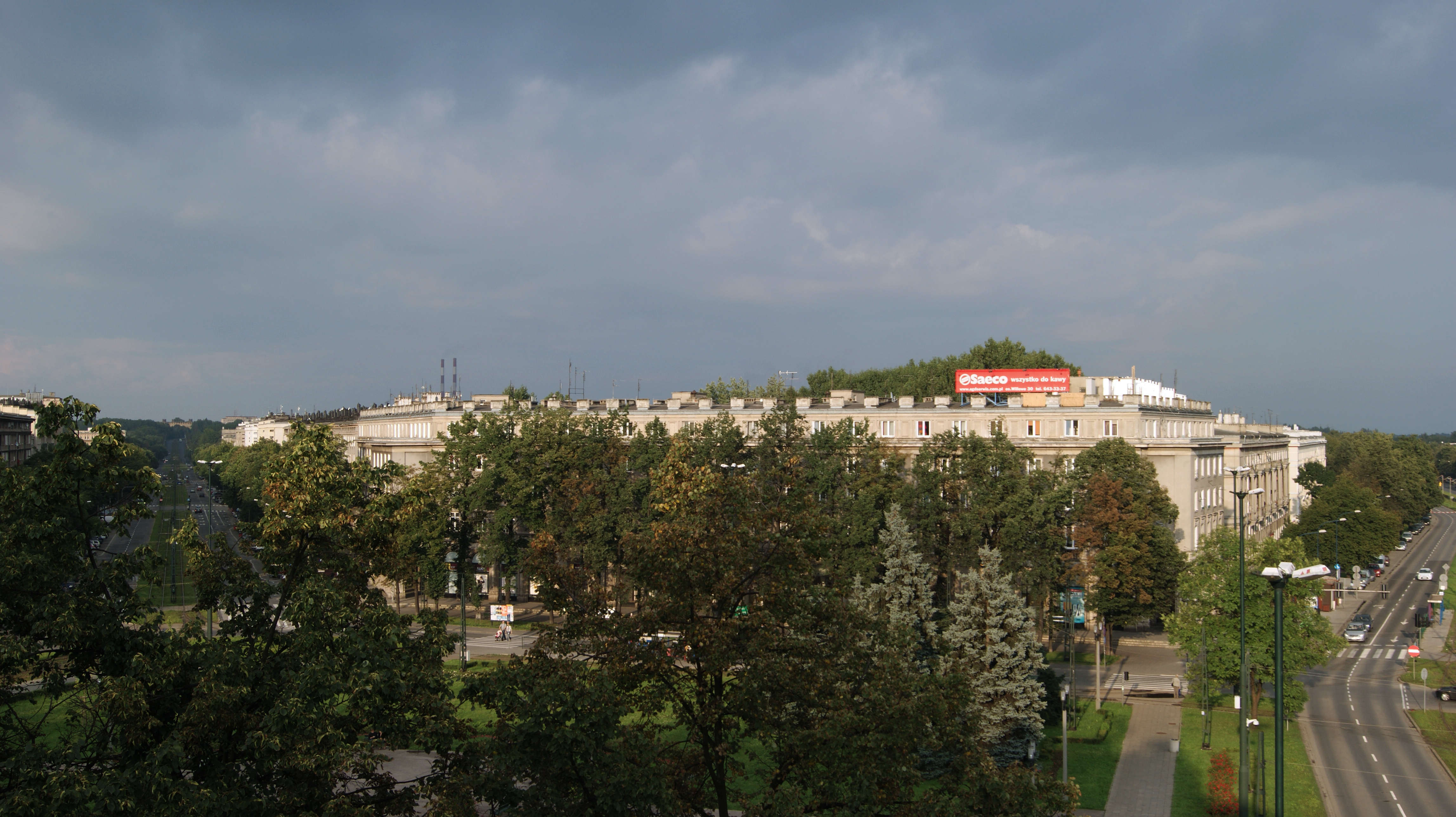 Central Square, Nowa Huta, Krakow, Poland